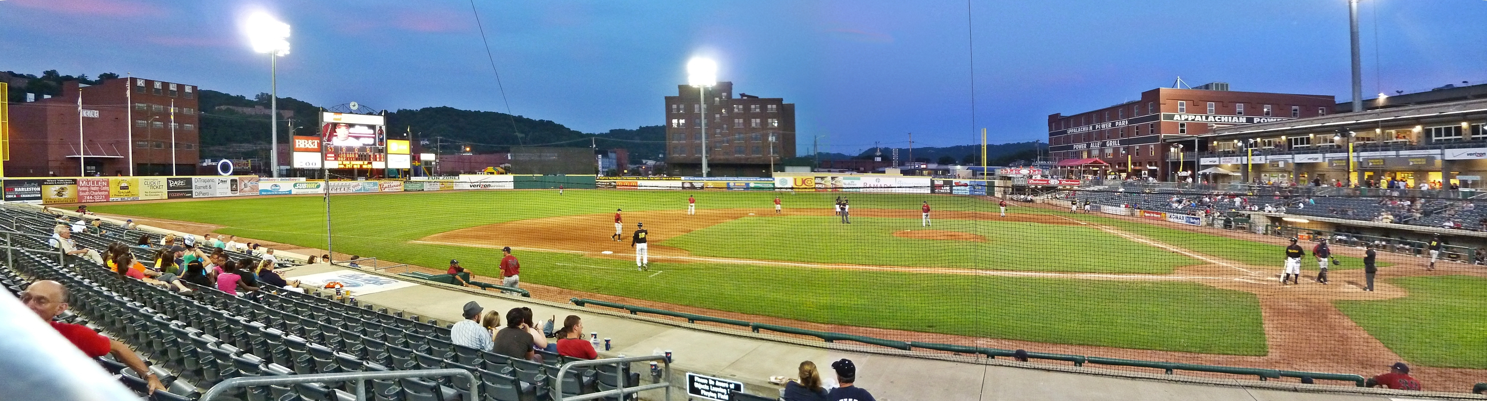 Night game at Appalachian Power Park vs. Lexington Legends, June 12, 2010